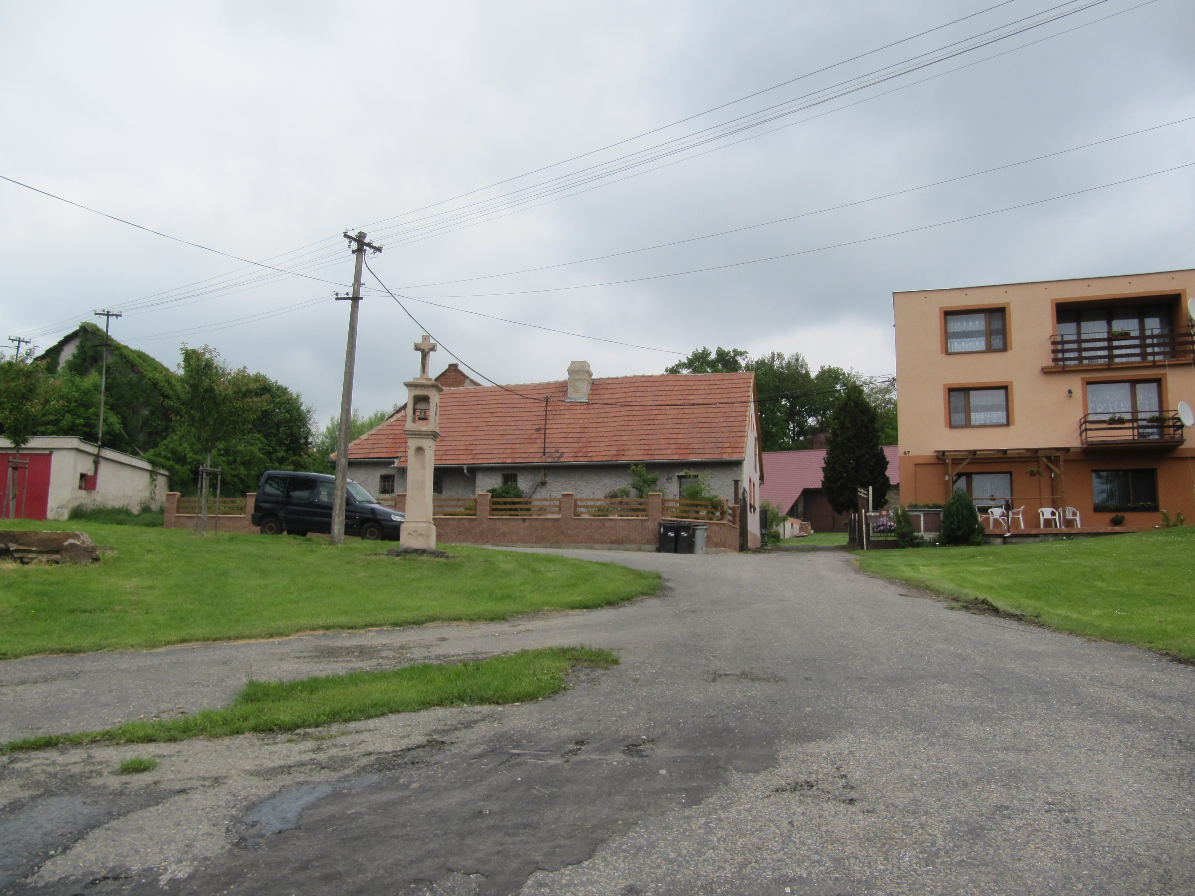 Barchovice, Kolín District, Czech Republic. Village green with belfry.